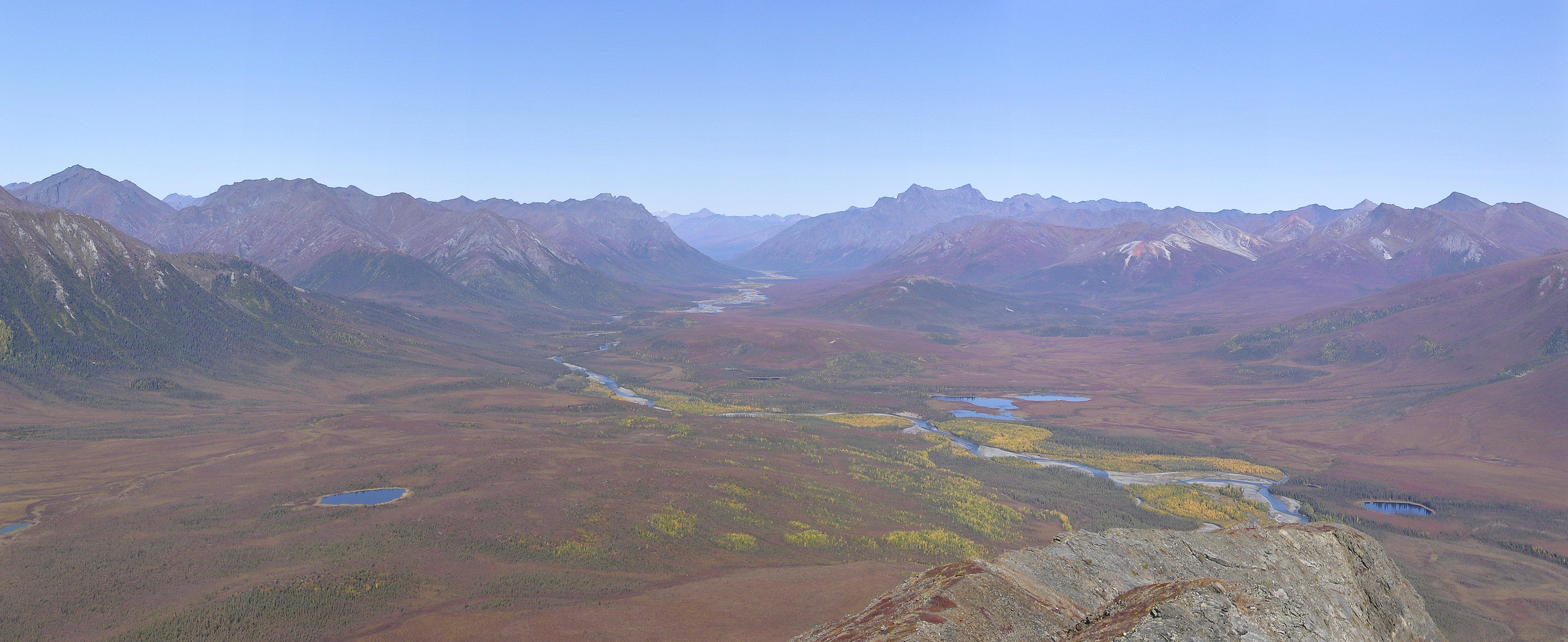 The North Fork of the Koyukuck River as it passes through Gates of the Arctic (left is Frigid Crags, to the right is Boreal Mountain). The view is looking north from the summit of Eroded Mountain in Gates of the Arctic National Park.